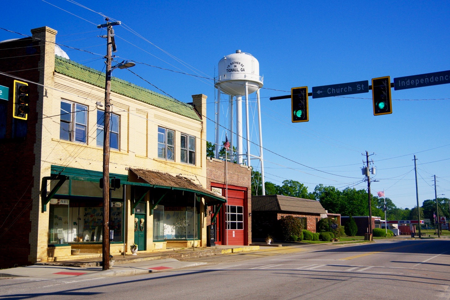 View along Hulin Avenue (Georgia State Route 17) in Tignall, Georgia, United States